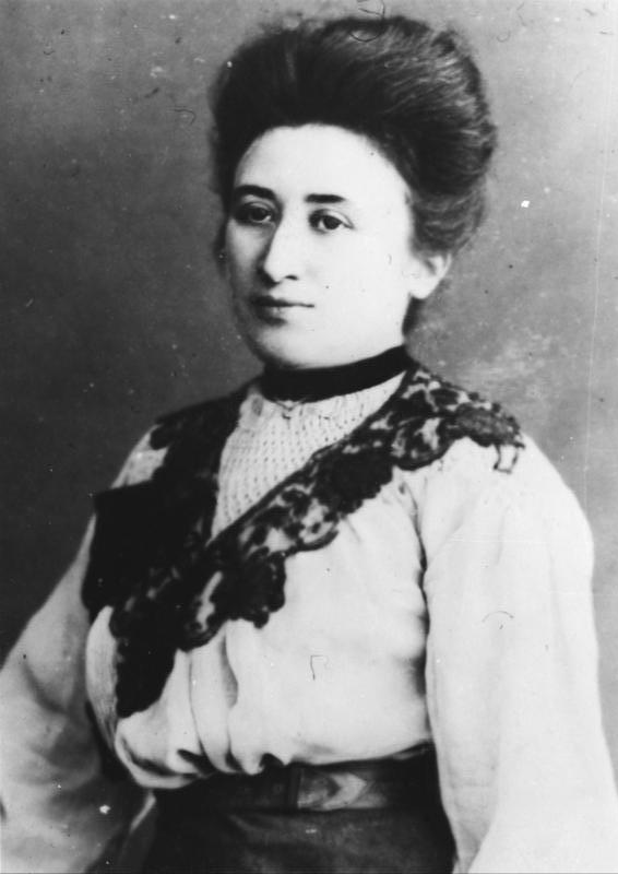 Title: Rosa Luxemburg People in the image: Luxemburg, Rosa: Führende Sozialdemokratin, Mitbegründerin der KPD, Polen (GND 118575503) Factual corrections and alternative descriptions are encouraged separately from the original description. Additionally errors can be reported at this page to inform the Bundesarchiv. Original historic description: ADN-ZB Rosa Luxemburg, führende linke Sozialdemokratin, Mitbegründerin der KPD, geb. 5.3.1871 in Zemosé ermordet am 15.1.1919 in Berlin